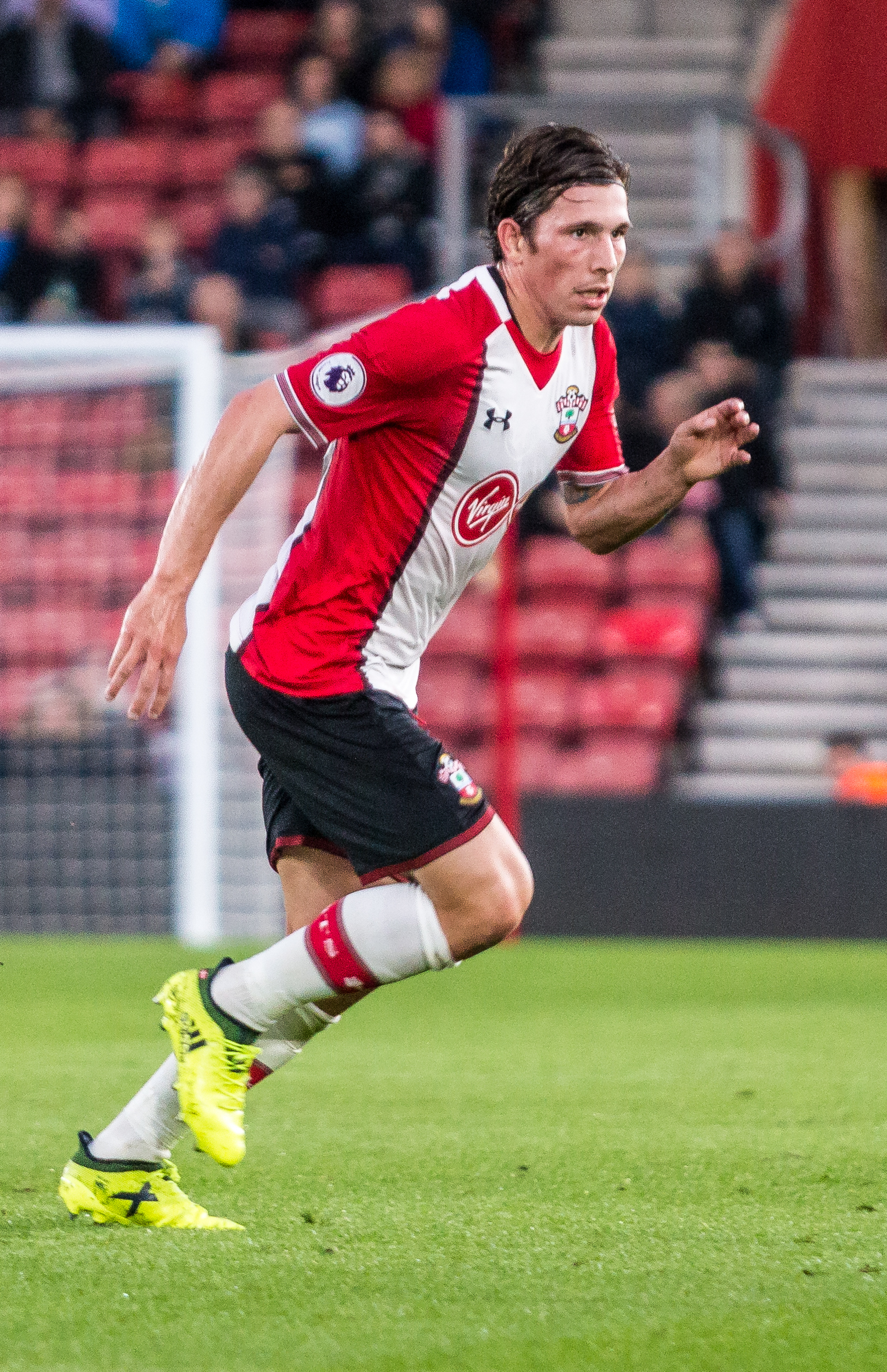 Pre-season friendly Wednesday 2 August 2017 Image by Lewis Commons